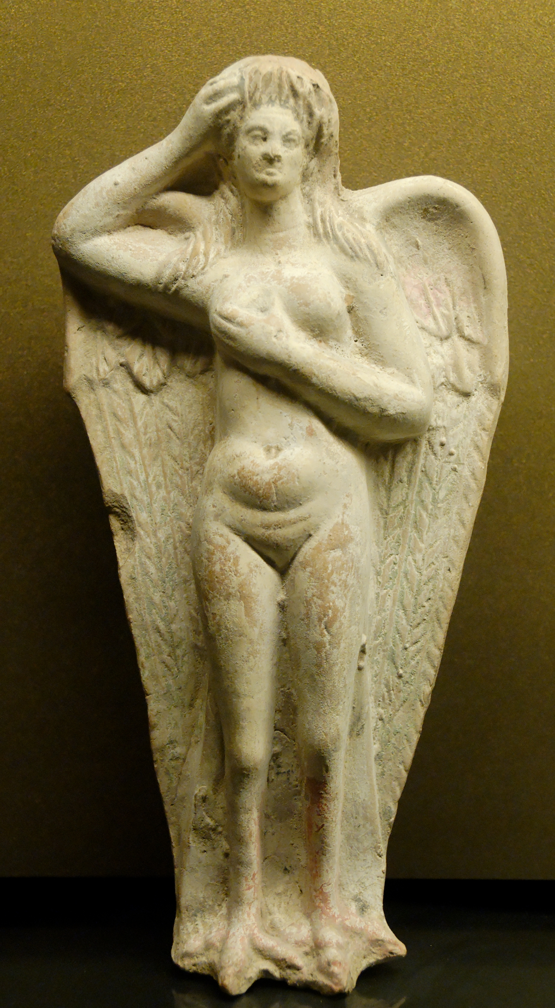 Funerary siren raising a hand to her breast and another hand to her hair, two typical gestures of distress and mourning. Terracotta figurine made in Myrina, 1st century BC.